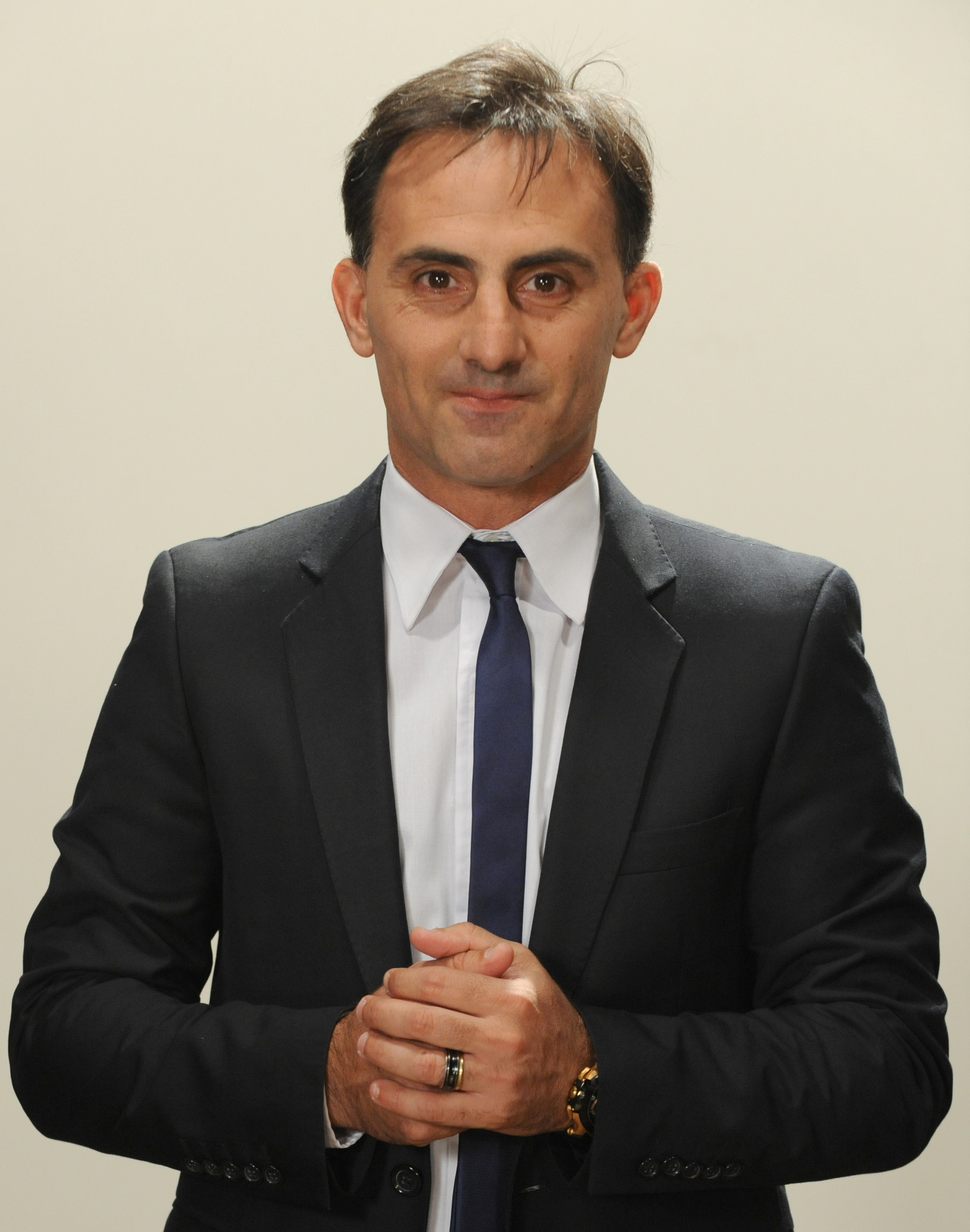 Argentine jornalist and former football player Diego Latorre.